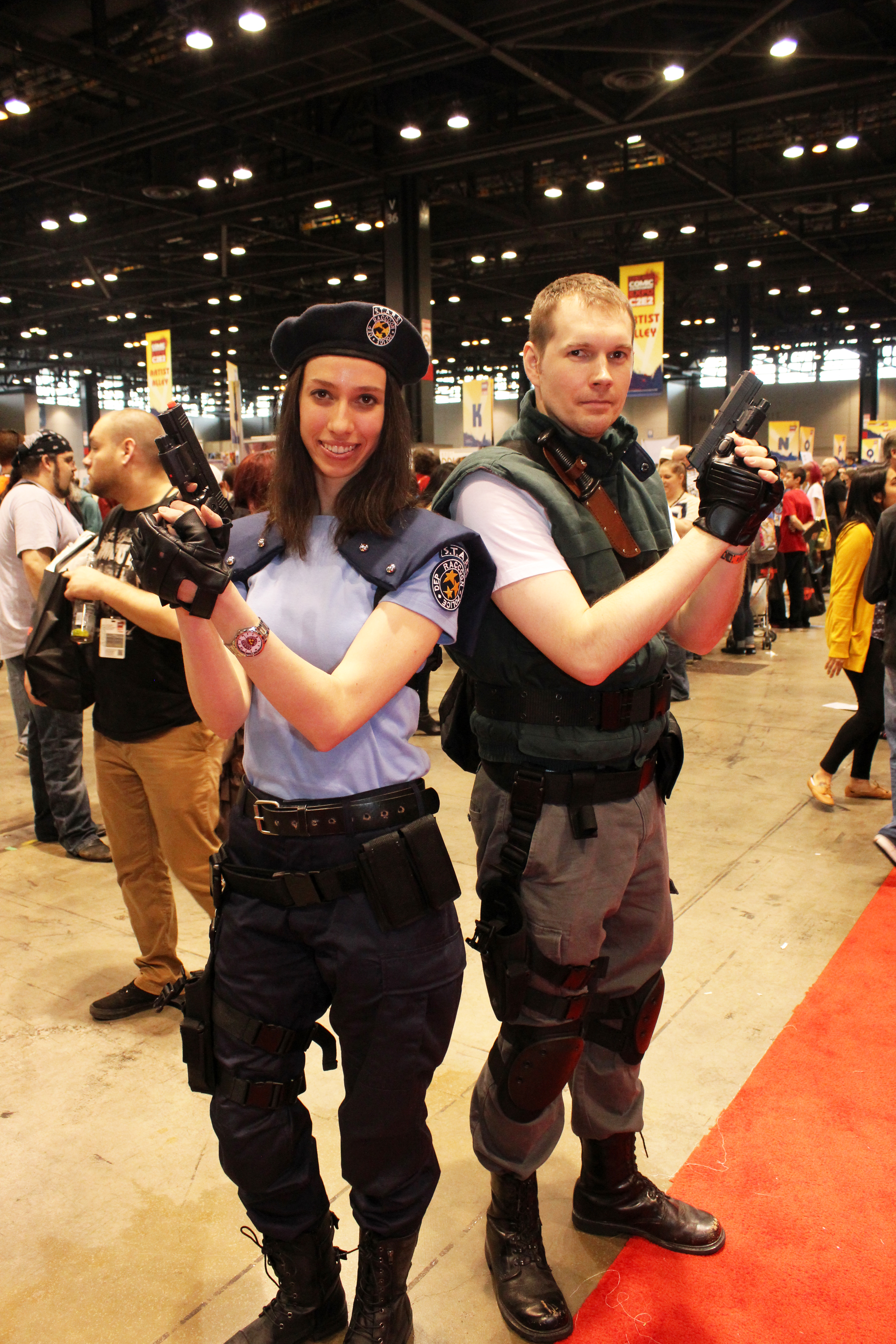 Cosplay at the 2013 Chicago Comic & Entertainment Expo (C2E2).